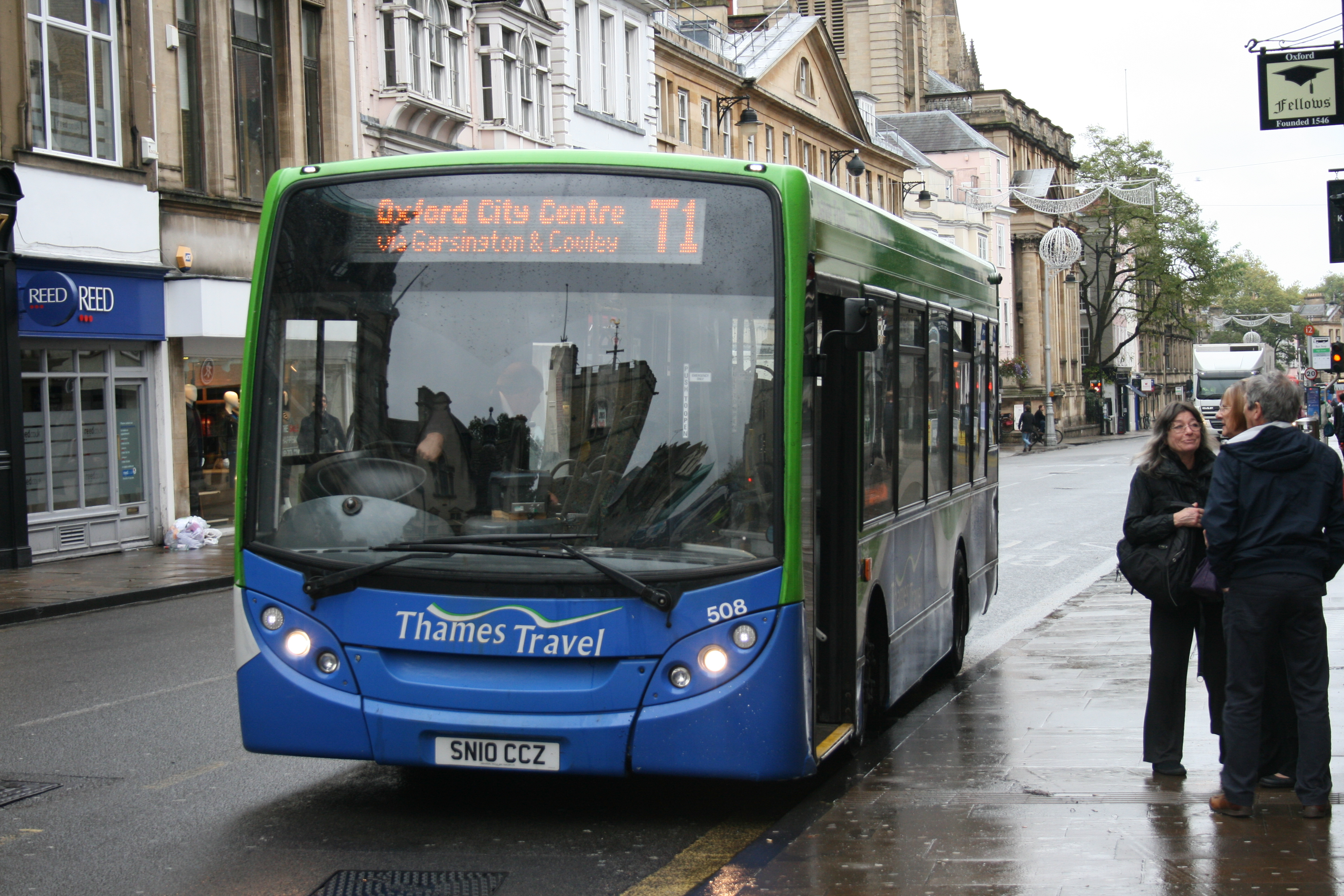 A Thames Travel bus on route T1 at the west end of High Street, Oxford. The bus is an Alexander Dennis Enviro200, fleet number 508, registration mark SN10 CCZ.